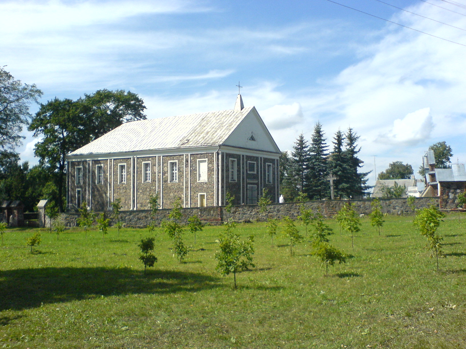 The church of Pabaiskas town. Photo by Juraune